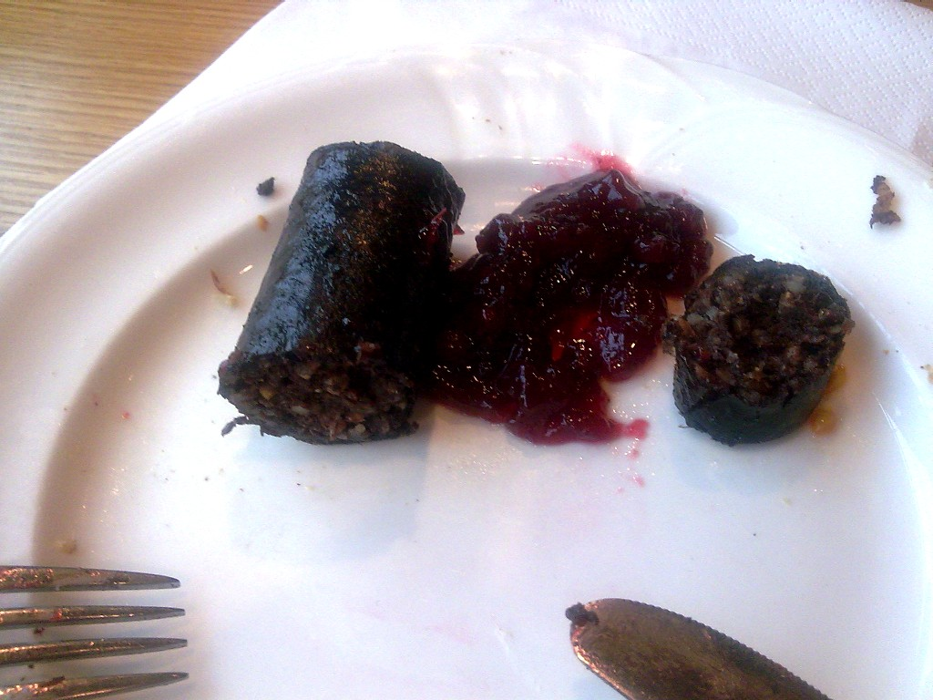 Mustamakkara